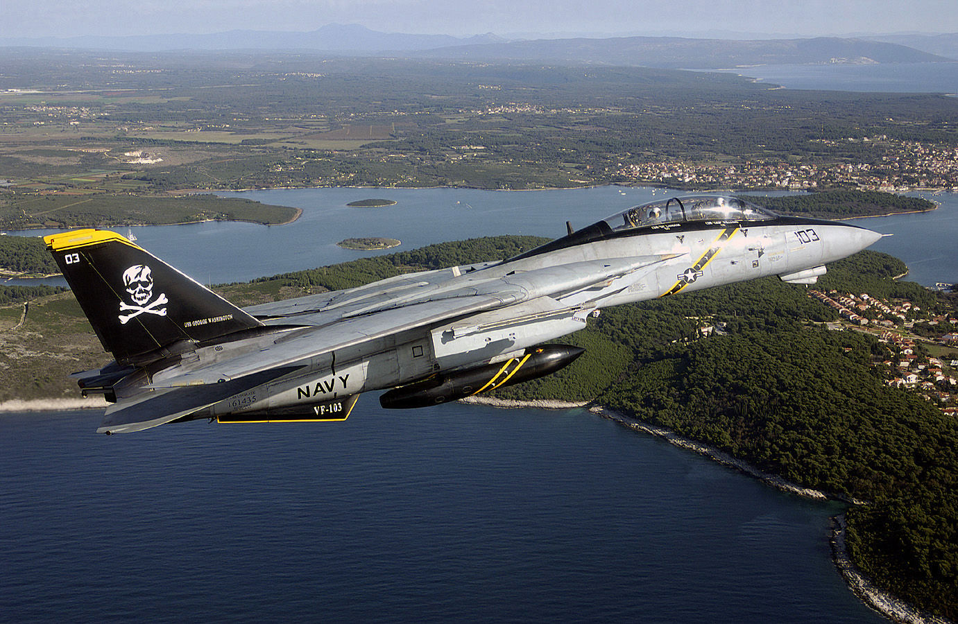 A US Navy (USN) F-14B Tomcat, Fighter Squadron 103 (VF-103, Jolly Rogers), Carrier Air Wing Seventeen (CVW-17), assigned to the Nimitz Class Aircraft Carrier, USS GEORGE WASHINGTON (CVN-73), flies over the coastline near Pula, Istria Province, Croatia (HRV), as it participates in Exercise Joint Wings 2002, which is a Joint Multi-National exercise between the US and the Croat Air Forces designed to practice intelligence gathering operations.